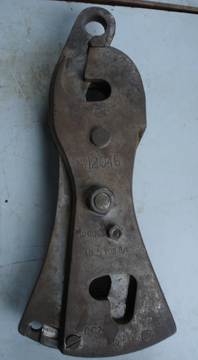 Ormerod detaching hook for preventing the overwinding of pit cages.